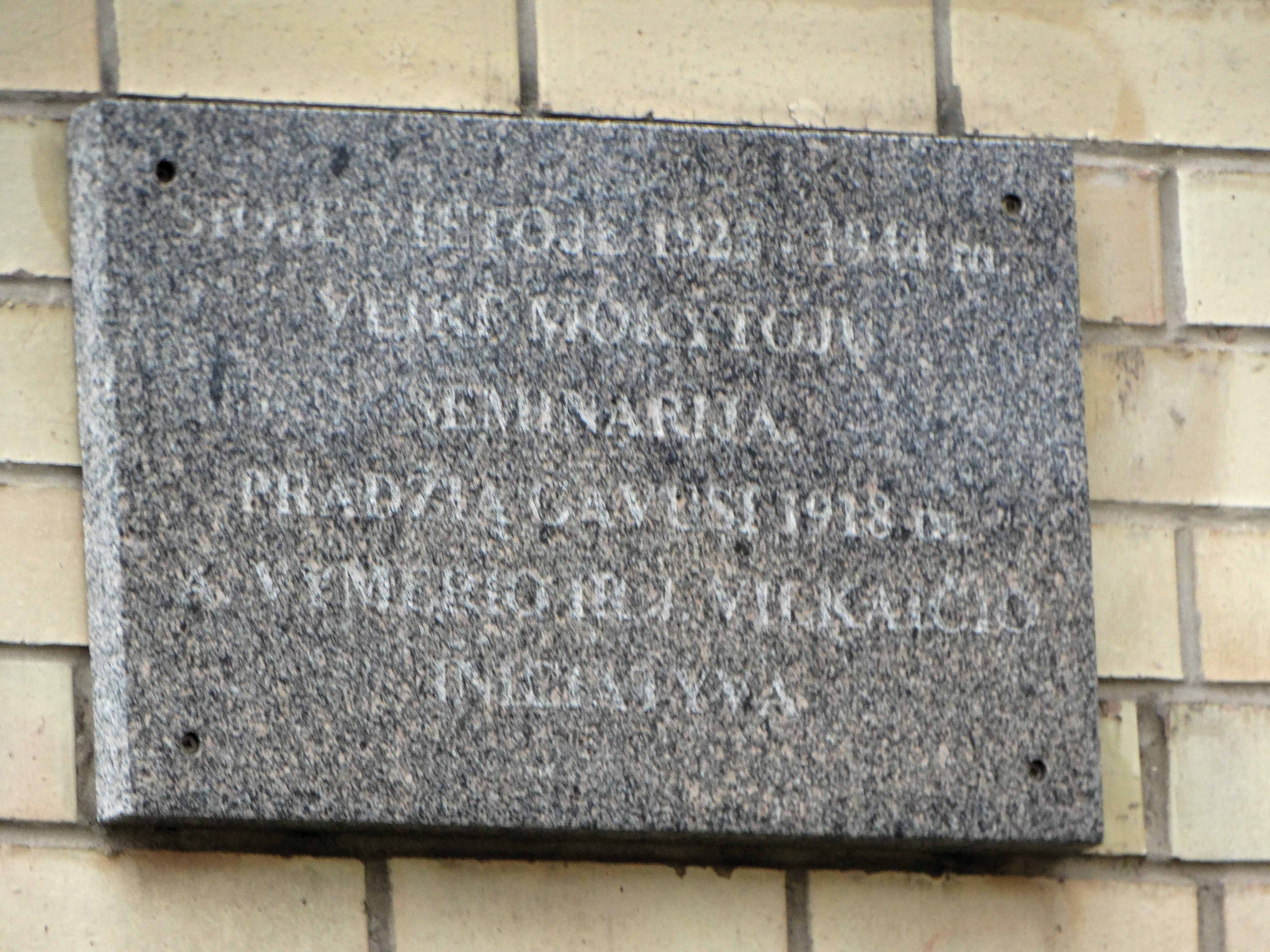 Teachers' Seminary, memorial board, Tauragė, Lithuania